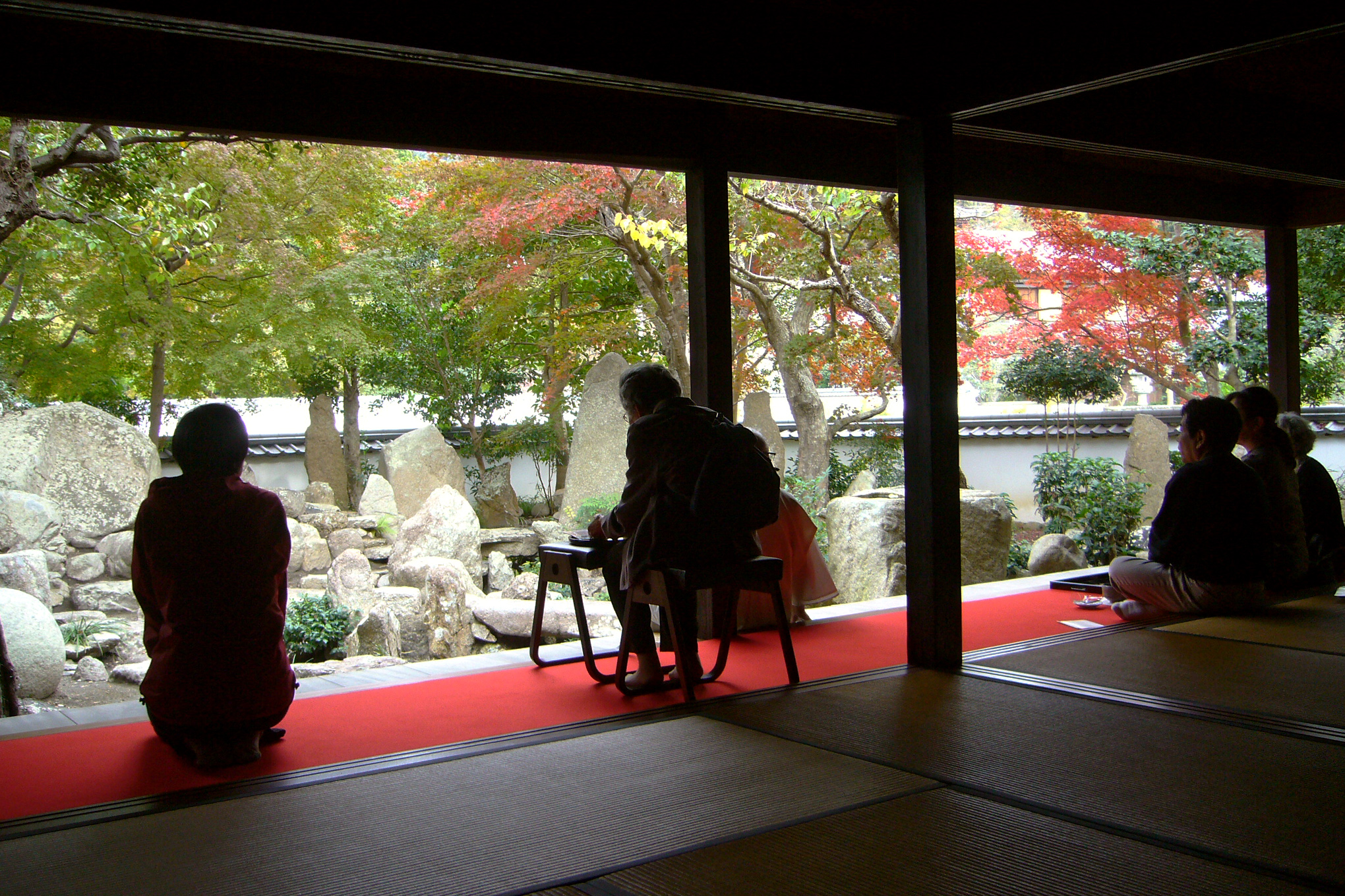 Anyoin, Kobe, Hyogo prefecture, Japan